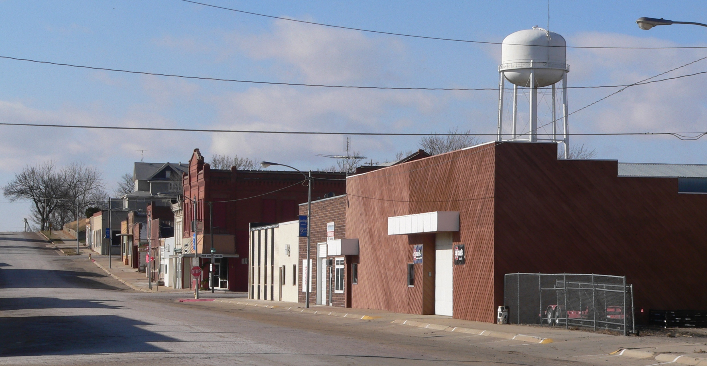 Randolph, Nebraska: north side of Broadway Street, looking west from about Nebraska Street.